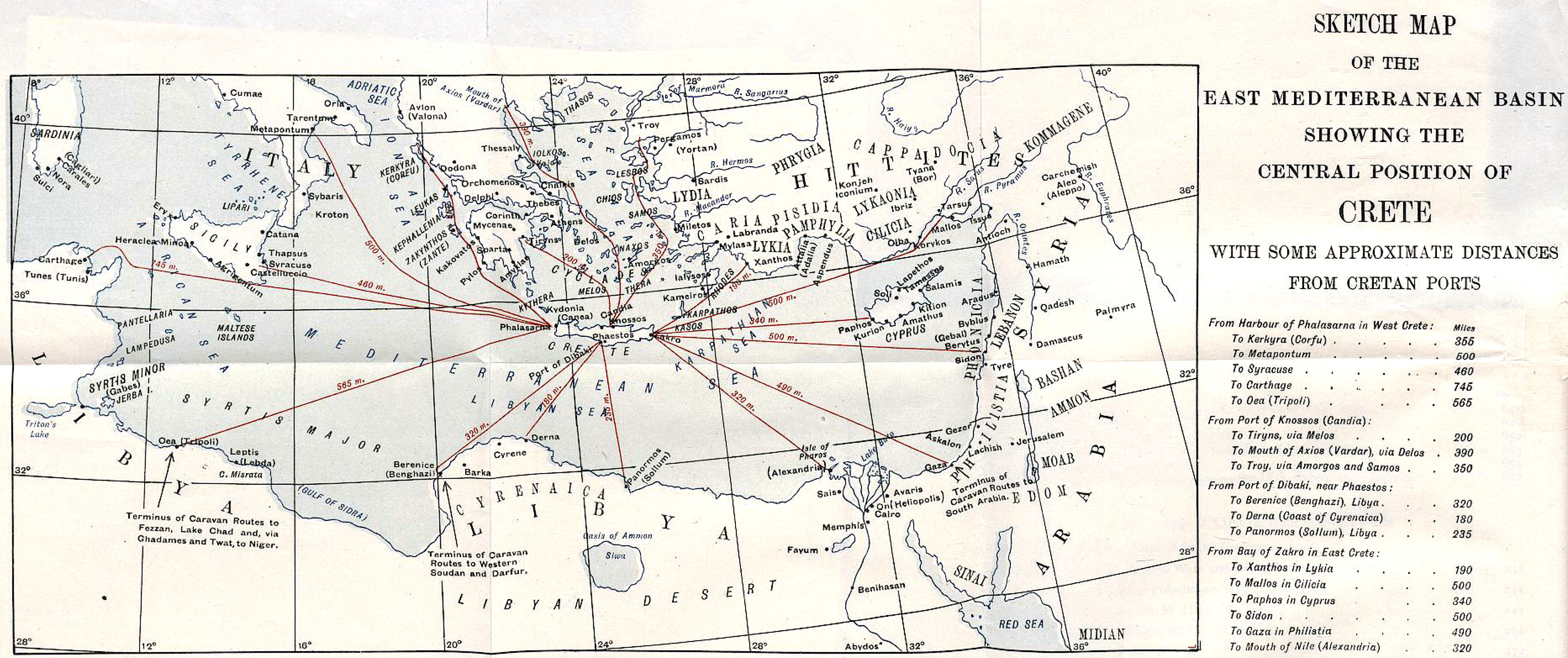 Sketch map of the East Mediterranean basin showing the central position of Crete with some approximate distances from Cretan ports